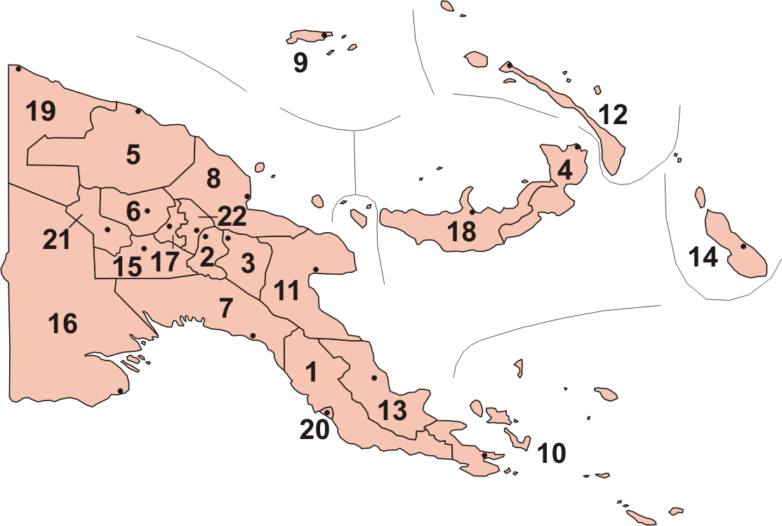 Map of Provinces of Papua New Guinea, including new provinces (Hela & Jiwaka) officially inaugurated in May 2012. Central Chimbu (Simbu) Eastern Highlands East New Britain East Sepik Enga Gulf Madang Manus Milne Bay Morobe New Ireland Northern (Oro Province) Bougainville (North Solomons) Southern Highlands Western Province (Fly) Western Highlands West New Britain West Sepik (Sandaun) National Capital District Hela Jiwaka The composition of the new provinces is confirmed by the official results of the 2012 General Election. The boundaries of the component districts of Jiwaka / West Highland and Hela / Southern Highlands are taken from publications of the National Research Institute of Papua New Guinea.